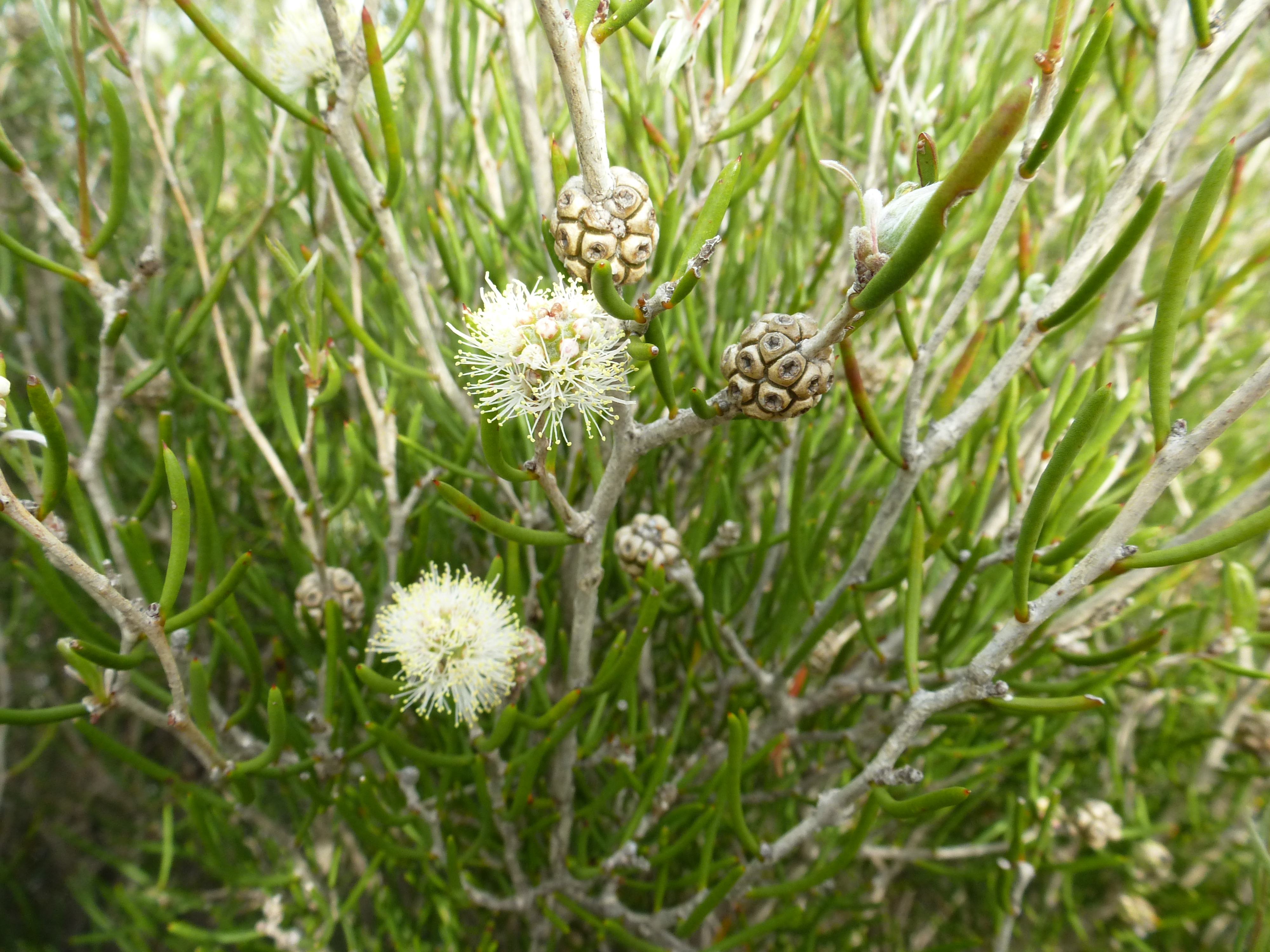 Melaleuca halophila growing on the edge of a salt lake in the Holt Nature Reserve near Salmon gums